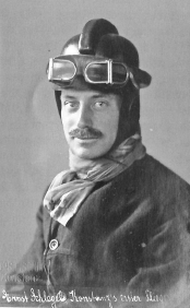 aviation pioneer